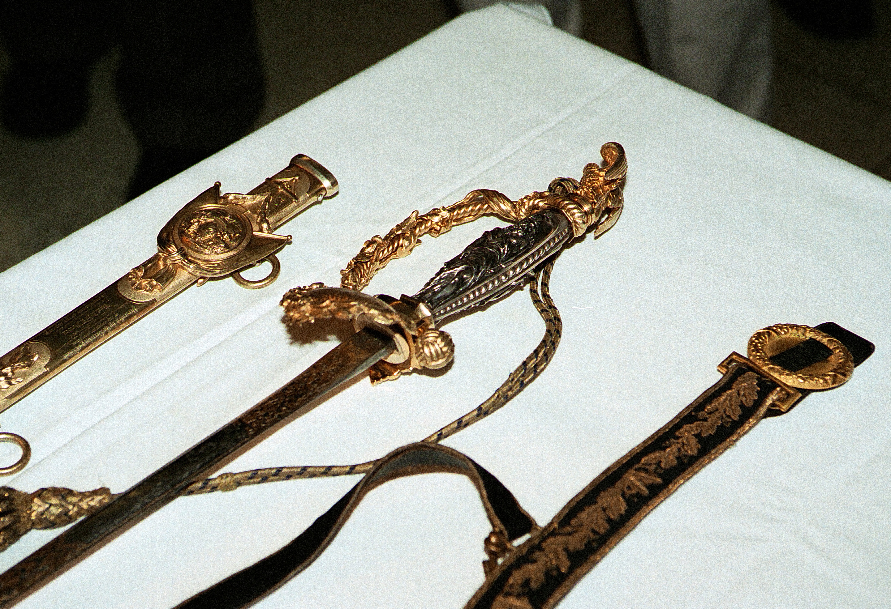 Annapolis, Md. (Jan. 12, 2004) -- The historic Worden Sword rests on a table with its belt and scabbard laid out for display. The FBI recovered the priceless sword missing since 1931, and returned it to the U.S. Naval Academy. The Tiffany sword was originally presented to Rear Adm. John L. Worden by the state of New York for his command of USS Monitor in its famous battle with CSS Virginia in Hampton Roads, Va., and March 9, 1862. Rear Adm. Worden also served as the seventh Superintendent of the U.S. Naval Academy. U.S. Navy photo by Cliff Maxwell. (RELEASED)